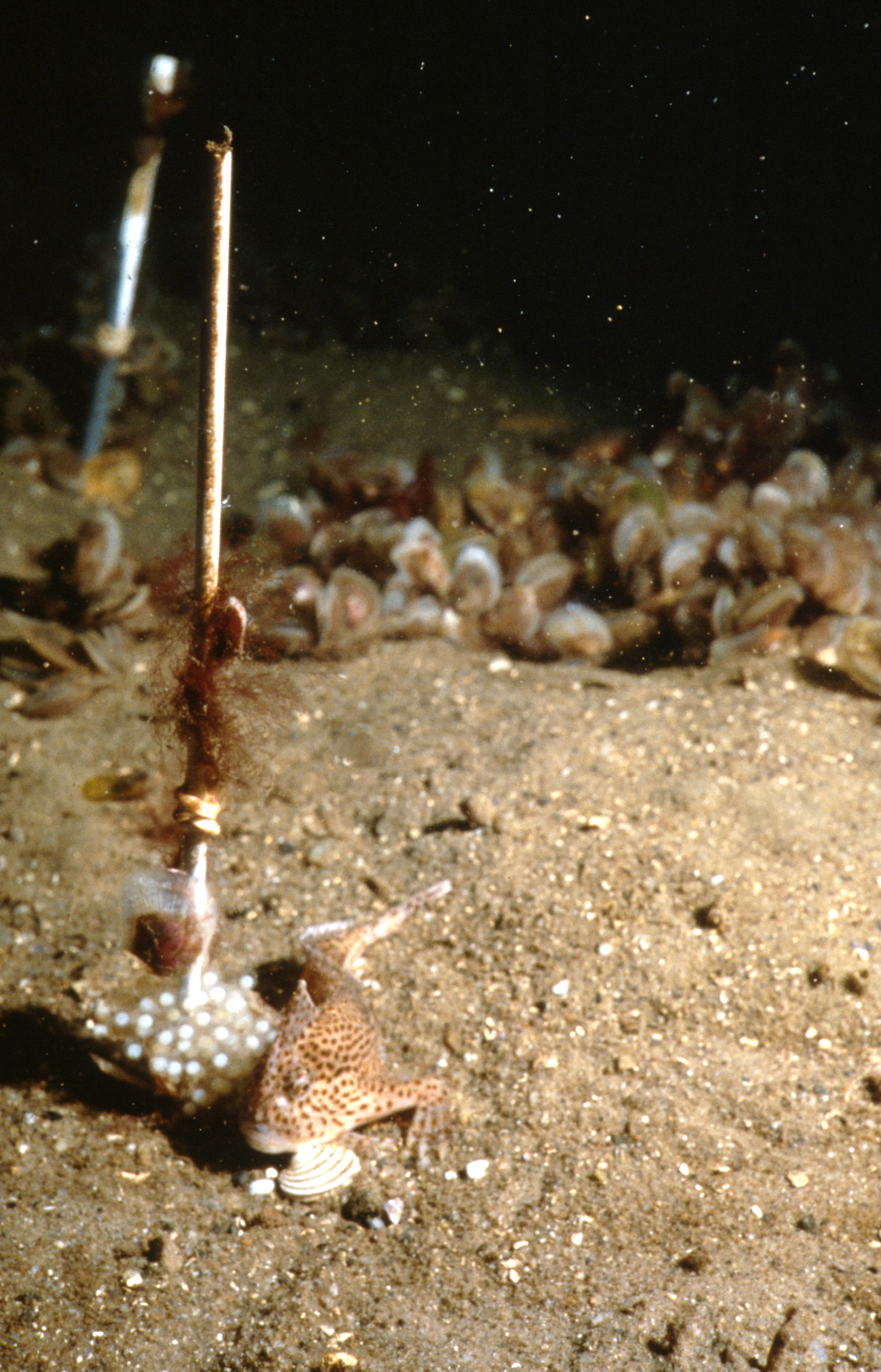 One of the threats to spotted handfish populations in Tasmania's Derwent estuary is believed to be the loss of stalked ascidians, around which the fish normally lay their eggs. Trials with plastic rods set into the bottom as artificial spawning sites have been successful. Handfish are small, bottom-dwelling fishes that would rather "walk" on their pectoral and pelvic fins than swim. They are native to Australia and five of the eight identified handfish species are found only in Tasmania and Bass Strait. The spotted handfish is endemic to Tasmania's lower Derwent River estuary. In 1996, the spotted handfish became the first Australian marine fish to be listed as endangered. Scientists, government and the community are involved in a federally-funded recovery plan for the spotted handfish led by CSIRO Marine Research. Picture credit: Mark Green/CSIRO Marine Research